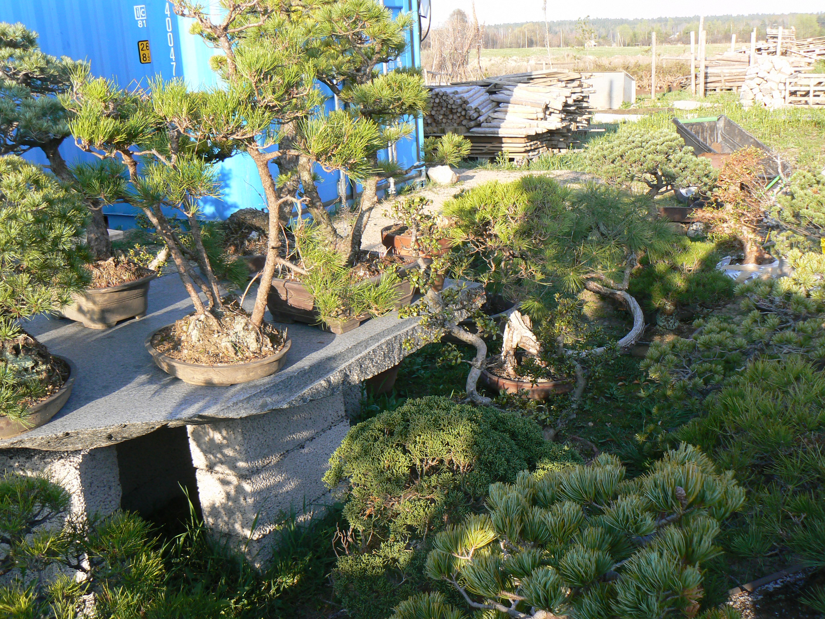 Bonsai in Japanese Garden of Mažučiai in Lithuania. Just got from Japan. Česky: Bonsai v Japonské zahradě v Mažučiai v Litvě, západně od Darbėnů. Čerstvá (2010-04-30) zásilka z Japonska.